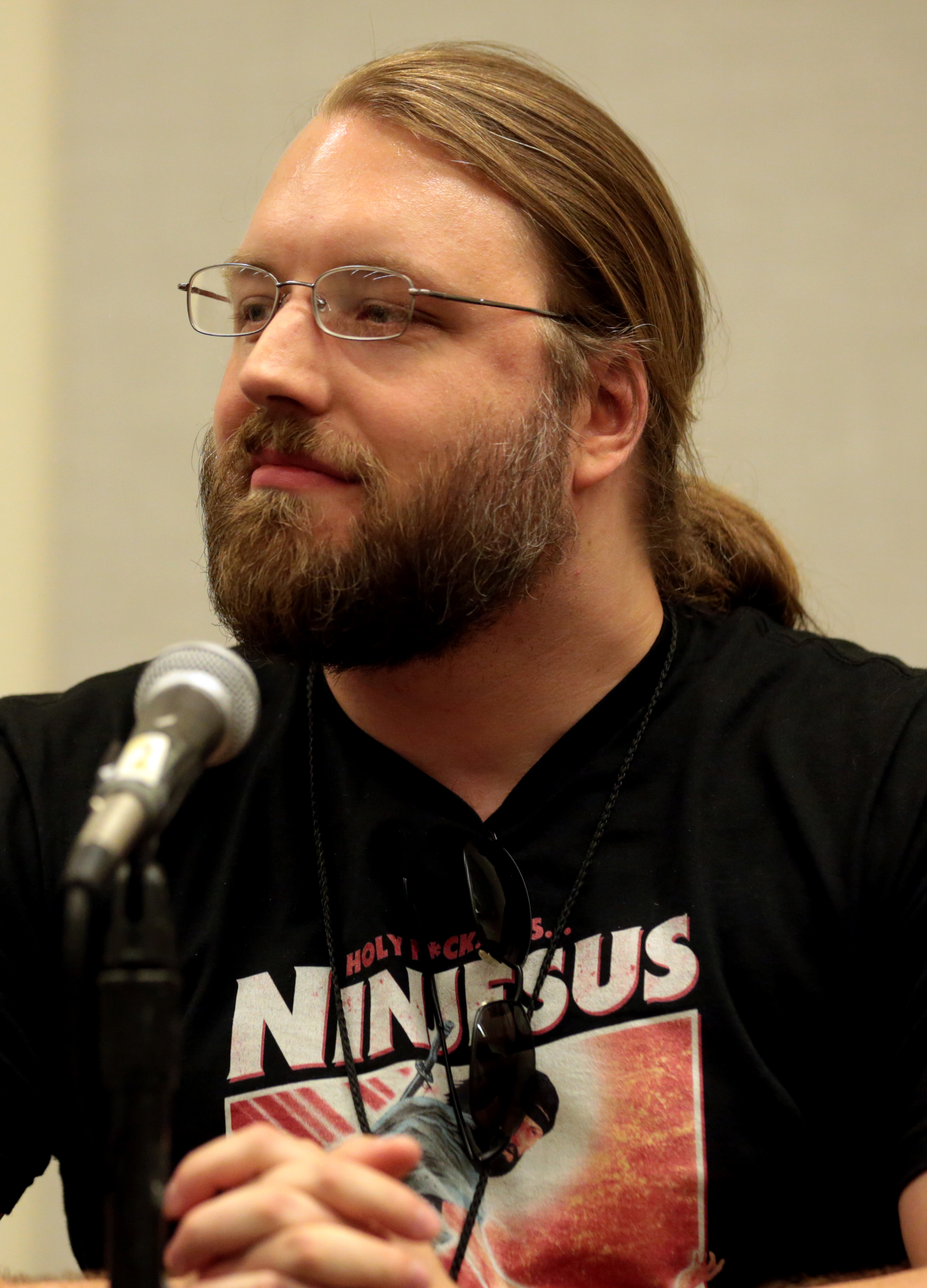 Scott Lynch speaking at the 2017 Phoenix Comicon in Phoenix, Arizona.